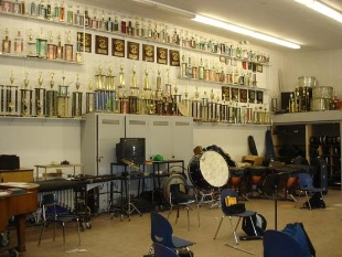 Instrumental music room - This is where band, orchestra, jazz band, and drumline students meet to learn instrumental music.